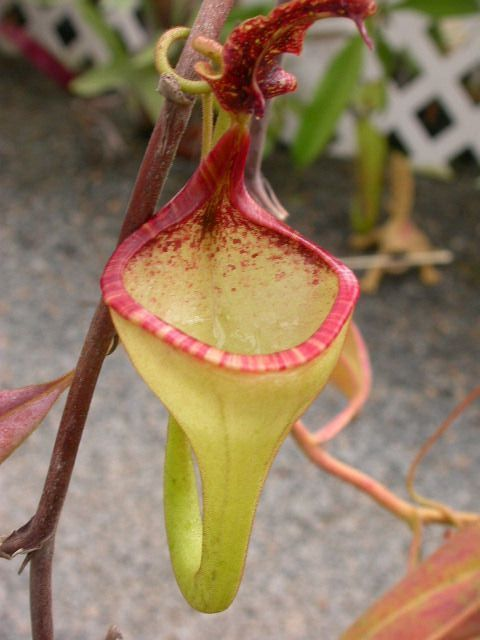 Cultivated N. eymae.